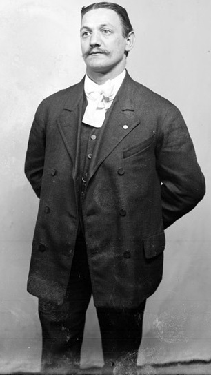 Richard Genserowski, basketball player